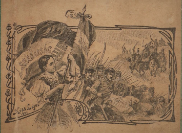 Beck Vilma. (Beck báróné, Racidula, Horeczky Vilma) Kiss Lajos (valószínűleg Kiss Lajos (tanár, 1849–1912)) illusztrációja. Forrás (illusztráció): Egy hölgy emlékiratai az 1848-49-iki magyar szabadságharczról, Miskolc, 1901. Fordította és kiadja: Dr. Halász Sándor tanár